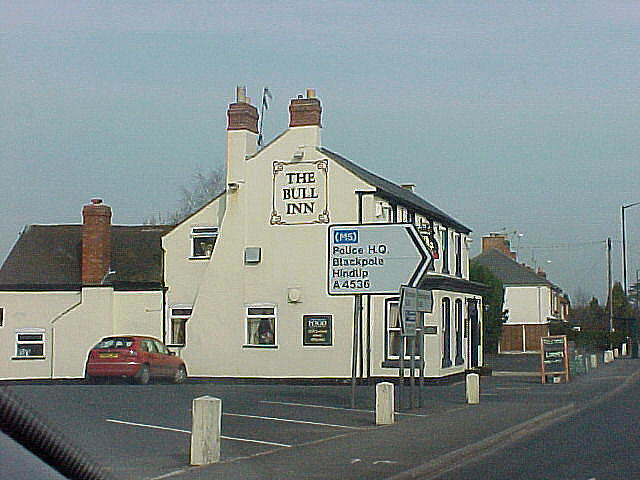 The Bull Inn, Fernhill Heath Situated on the A38 at the junction of the A4536 which provides access to the M5